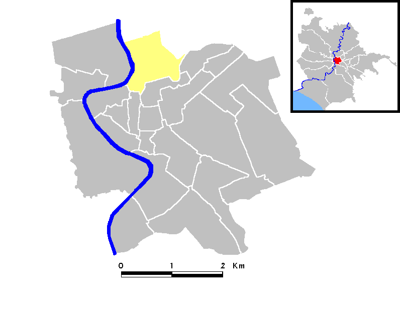 Locator maps of Rome (rioni)